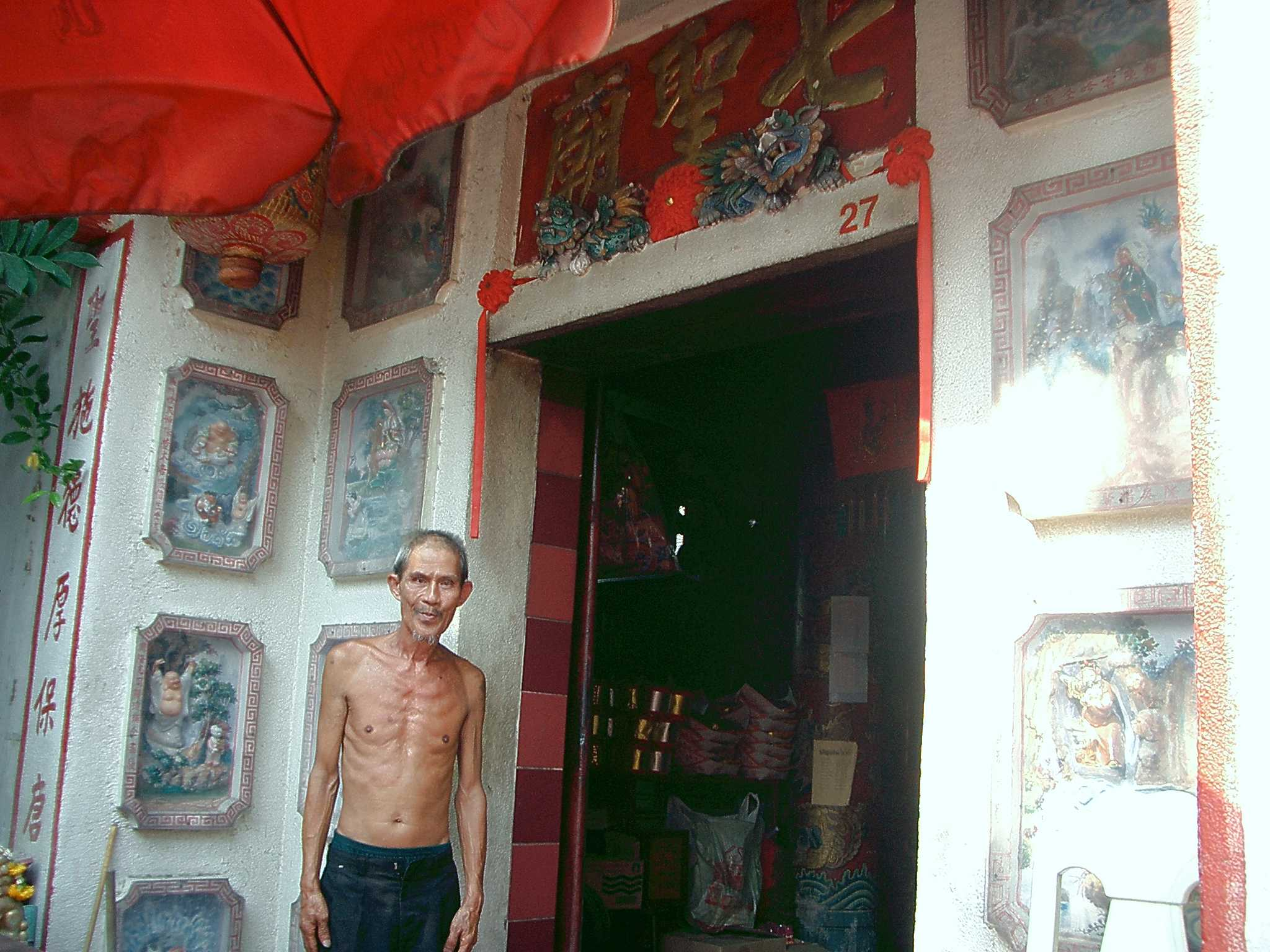 Main Enterance, Wat San Chao Chet, Bangrak, Bangkok, Thailand